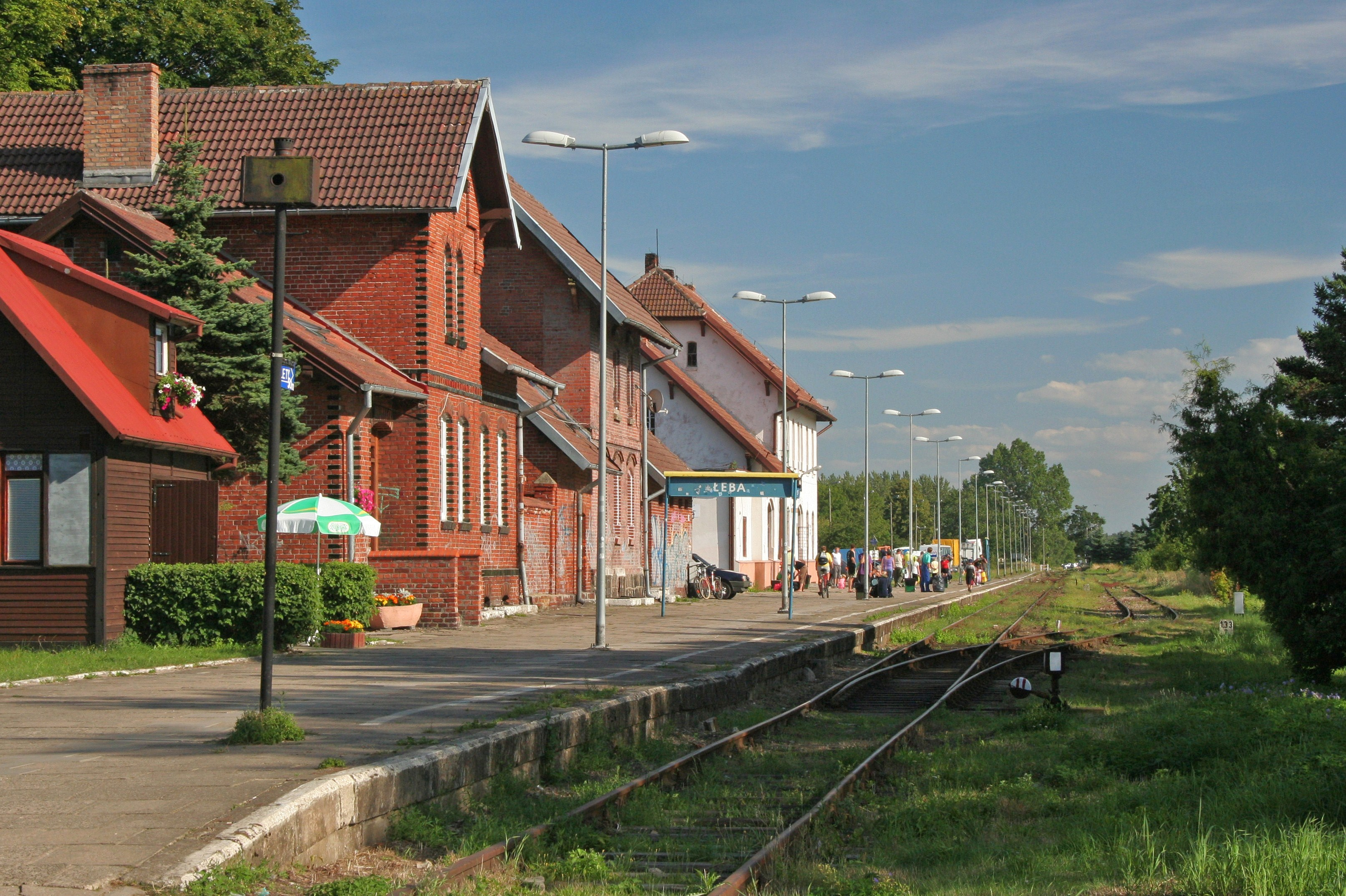 Train station in Łeba.